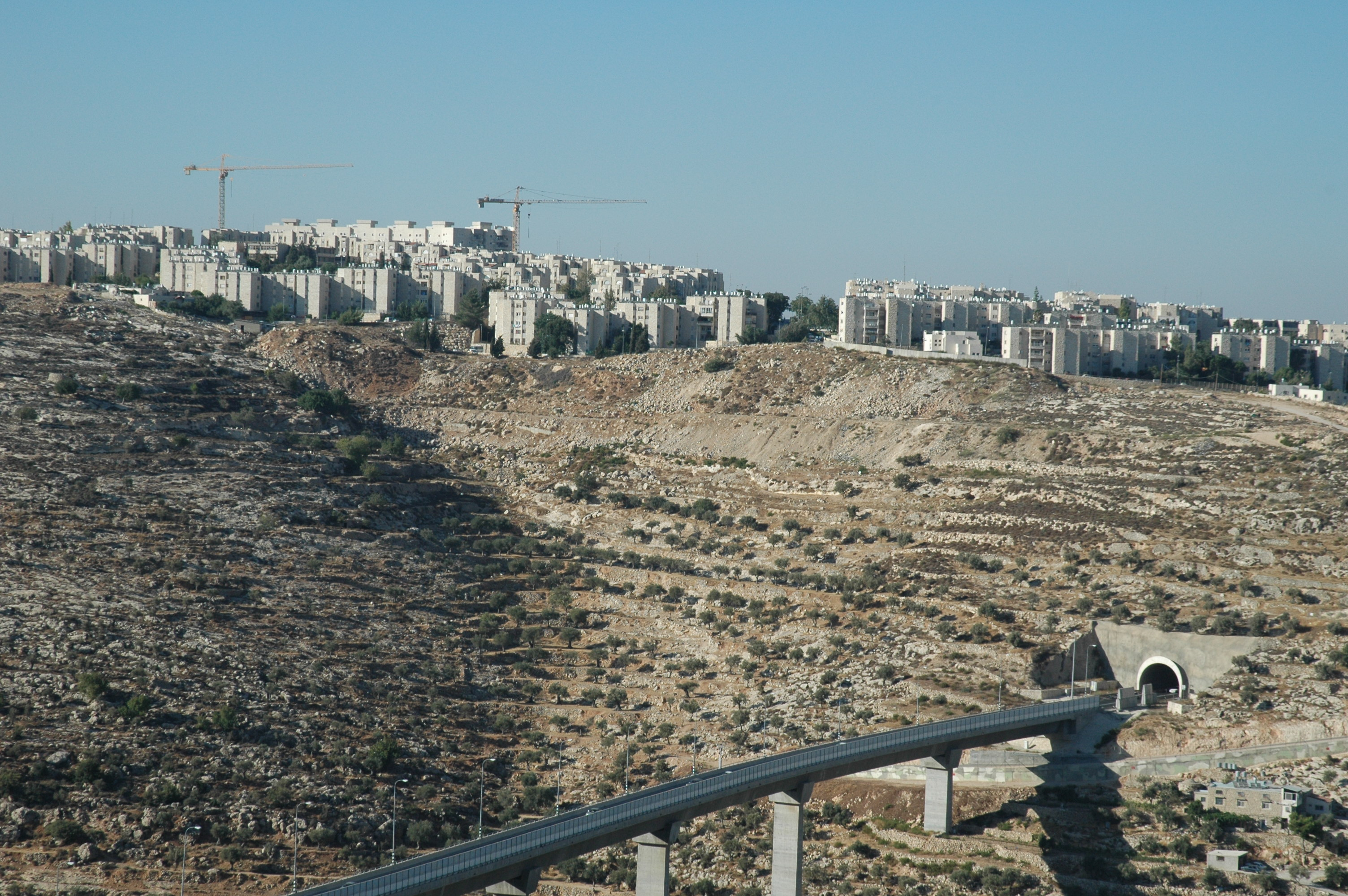 West Bank, Near Giloh, Jerusalem, the Tunnels Road (view from Beit Jalla) - Bridge connecting Israel with the West Bank/Palestine This is a tunnel and bridge leading from the Jerusalem suburb of Gilo to the West Bank settlements of the Etzion bloc. Note the farmhouse on the bottom right.